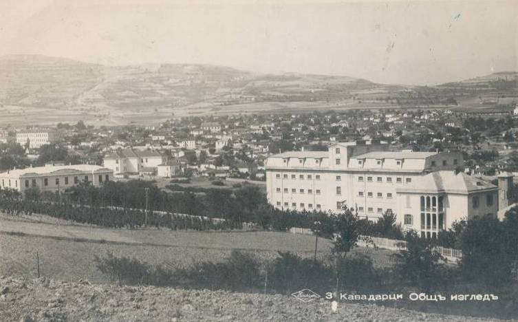 Kavadarci, Macedonia